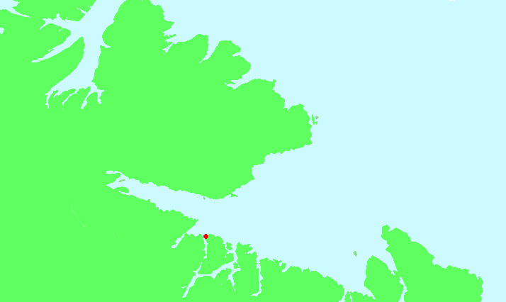 Locator map of Skogerøya, Finnmark, Norway